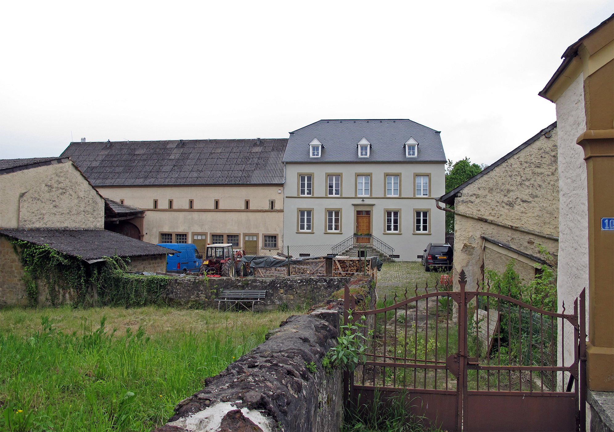 Farmhouse in Manternach, Luxembourg, 10 Syrdallstrooss